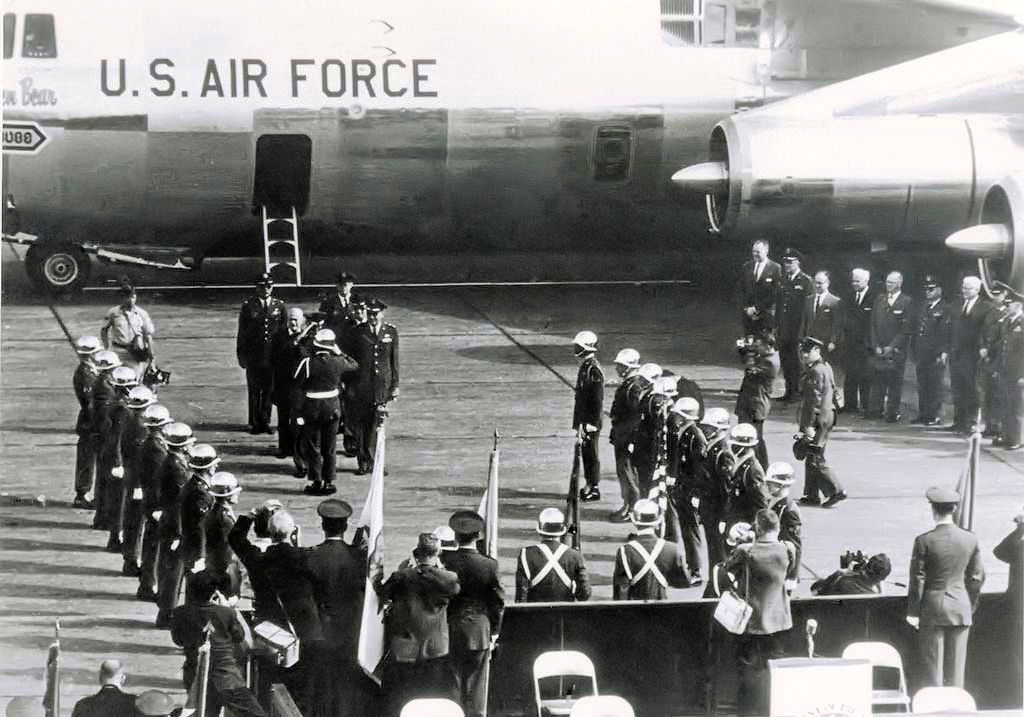 Arrival ceremony for Lockheed C-141A-10-LM Starlifter(Tail 63-8088) at Travis Air Force Base, CA on April 23, 1965. Known as the "Golden Bear", This plane was the first production C-141 Starlifter to see active service. It was assigned to the 44th Air Transport Squadron, 1501st Air Transport Wing at Travis. The 60th Military Airlift Wing would go on to takeover the planes and host base responsibilities from the 1501st on January 6, 1966. Originally built as a C-141A. Converted to C-141B in 1980. Retired in 2002. Now on Display at Travis AFB Museum, Fairfield, CA outside at the intersection of Boulevard and Travis Avenue below The old hospital. Restored in 2005 and placed at static display on September 16, 2005. Copyright:USAF Photo Source:60th Air Mobility Wing History Office.